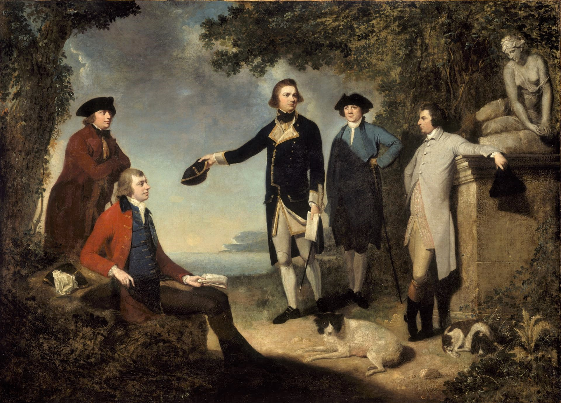 Captain James Cook, Sir Joseph Banks, Lord Sandwich, Dr Daniel Solander and Dr John Hawkesworth. Oil on canvas, 120 x 166 cm. By John Hamilton Mortimer. (Title devised by cataloguer). The people portrayed are, from left to right, Dr Daniel Solander, Sir Joseph Banks, Captain James Cook, Dr John Hawkesworth, and John Montagu, 4th Earl of Sandwich.